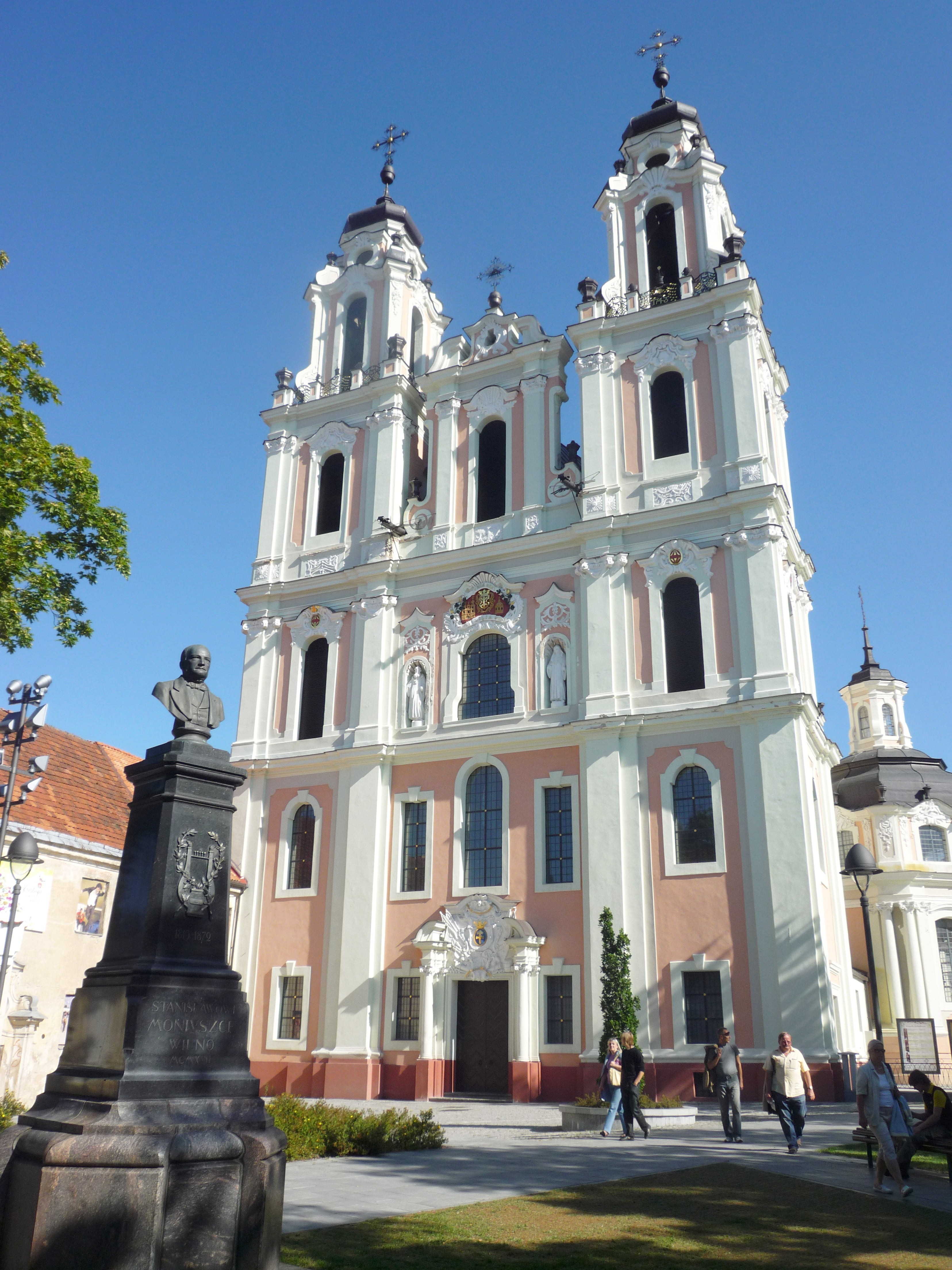 Church of st. Catherine in Vilnius and the monument of Stanislaw Moniuszko